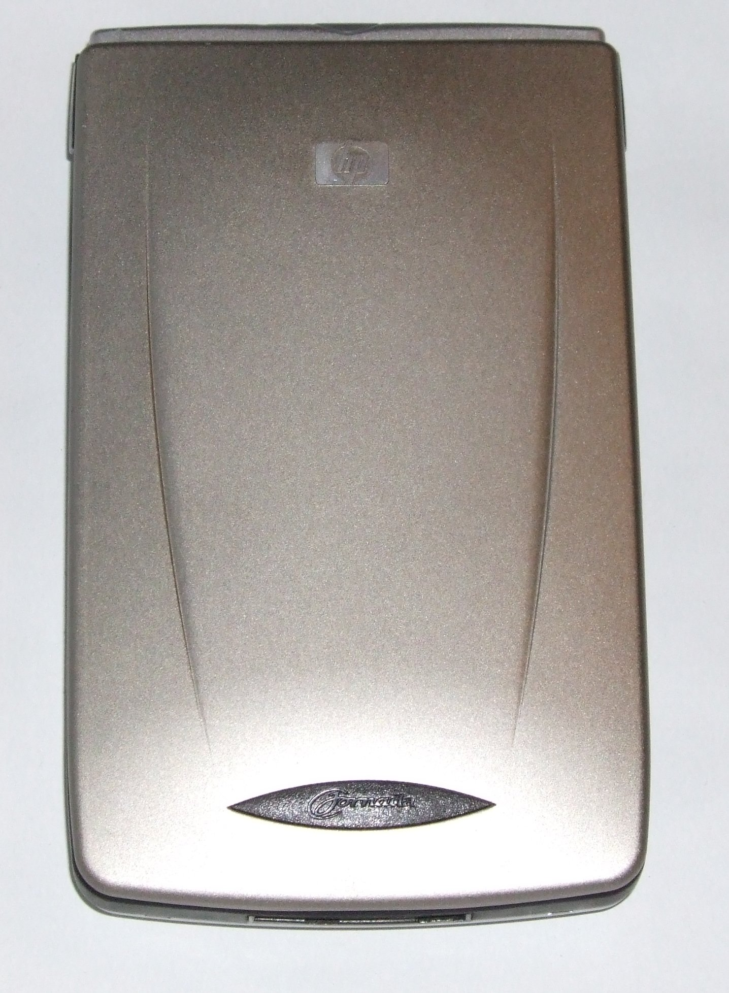 Hp Jornada 520 (closed)